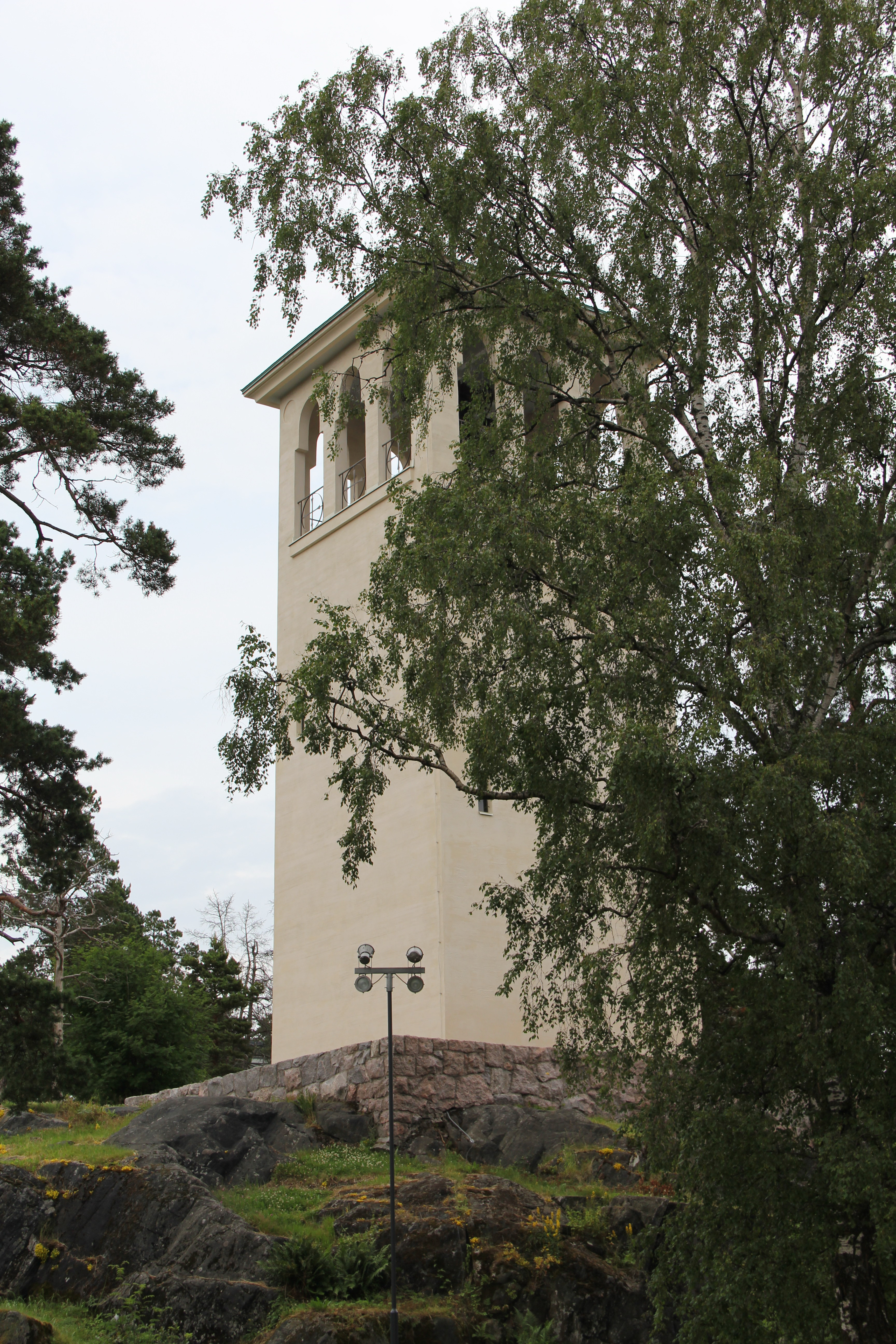 Kulosaari Church campanile, Kulosaari, Helsinki, Finland (1931, architect Armas Lindgren)